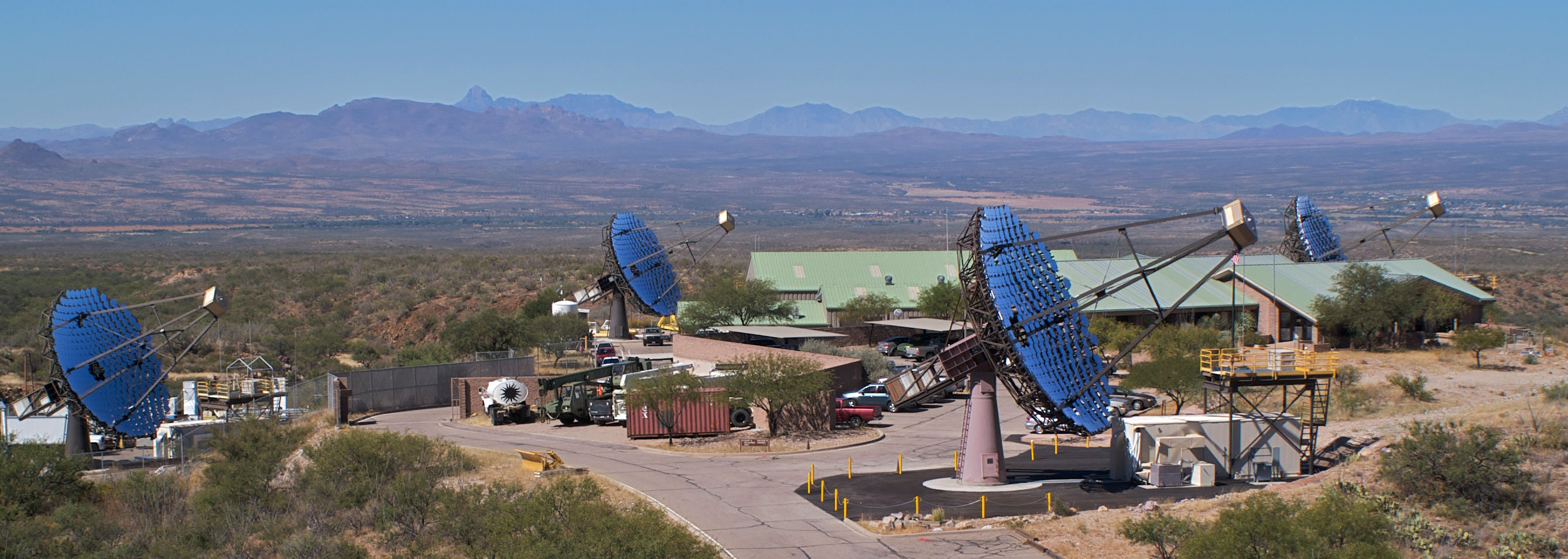 The VERITAS array, an air Cherenkov telescope designed to detect low-energy cosmic rays.